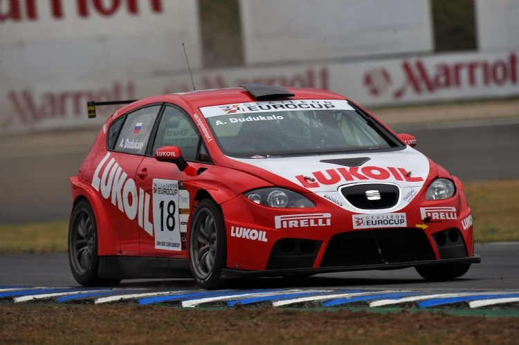 Russian driver Aleksei Dudukalo in the SEAT Leon Eurocup, Brno 2009.